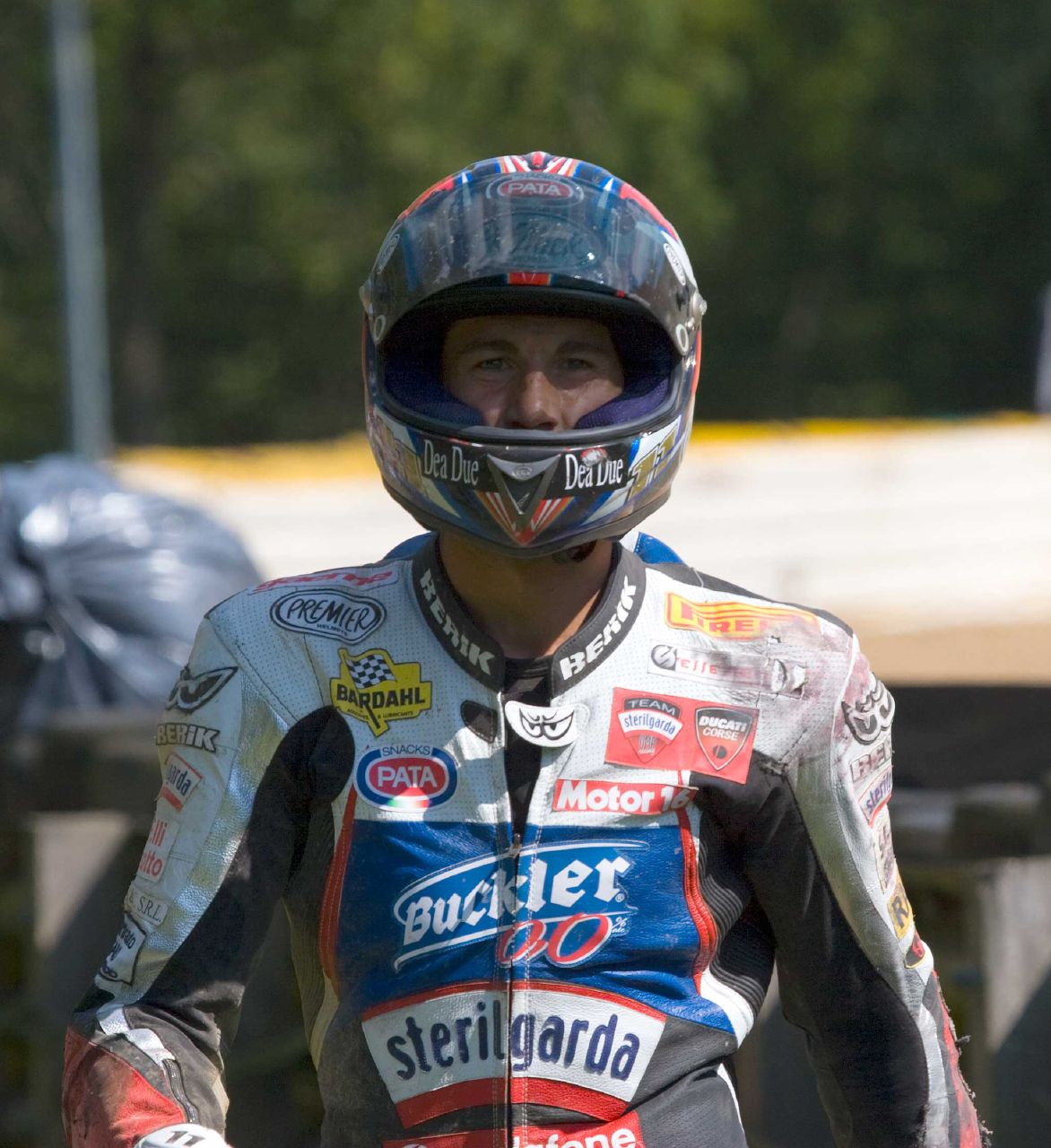 Ruben Xaus, Brands Hatch, 2007. Walking back to the pits!